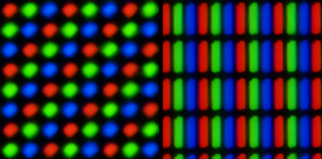 1 square millimeter (1×1mm) of two laptop screens, displaying plain white, to show the subpixel arrangement: OLPC XO-1 screen (XO-1 Test-B2 pre-release model) (left image) a "typical" laptop monitor: Lenovo X61: 12" diagonal, 1024×768 pixels [0.2381 dot pitch (mm); 106.67 PPI] Both images were photographed with the displays at maximum brightness, under identical conditions, and have been (minimally) processed identically.